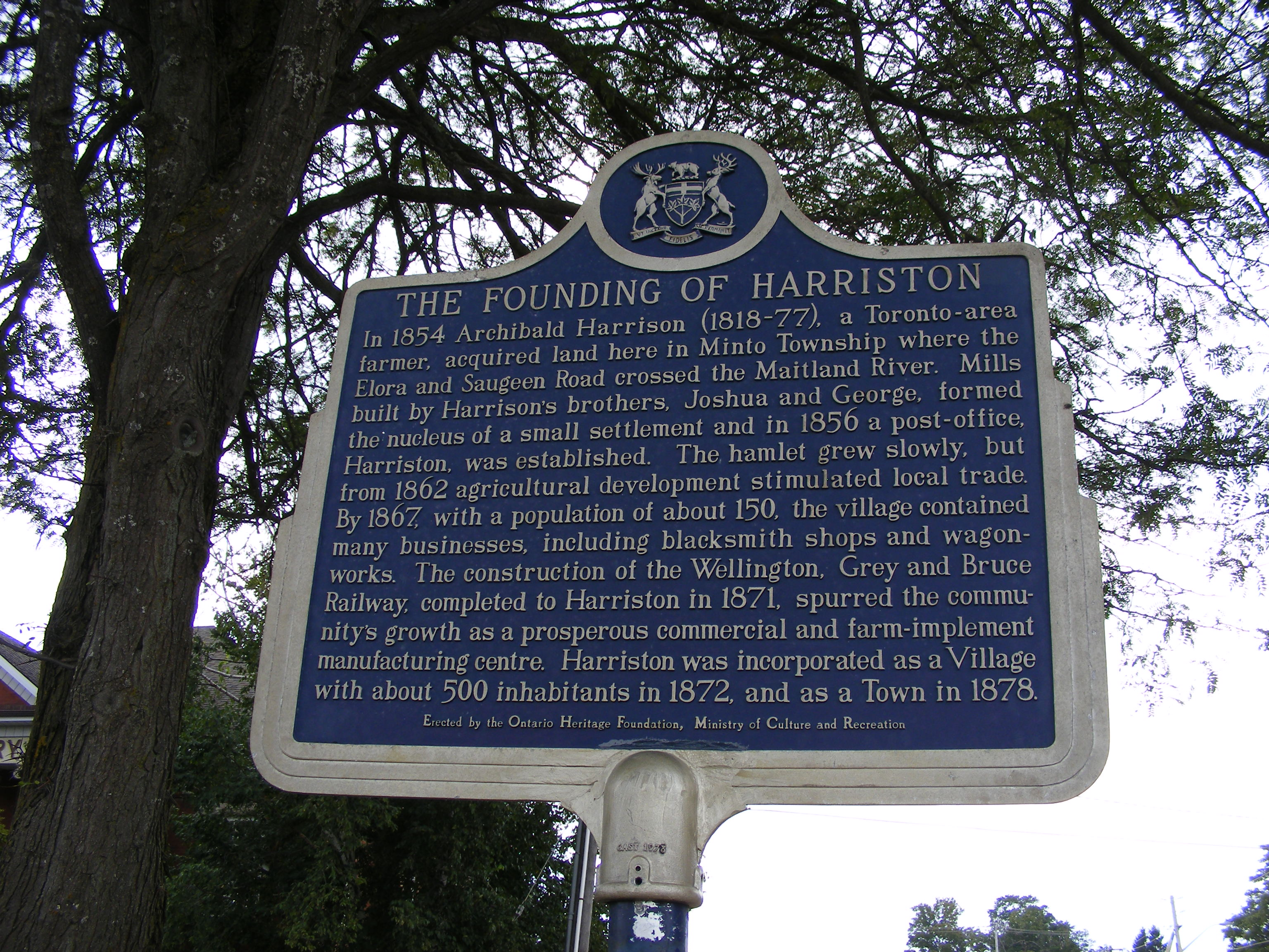 Harriston founding plaque.